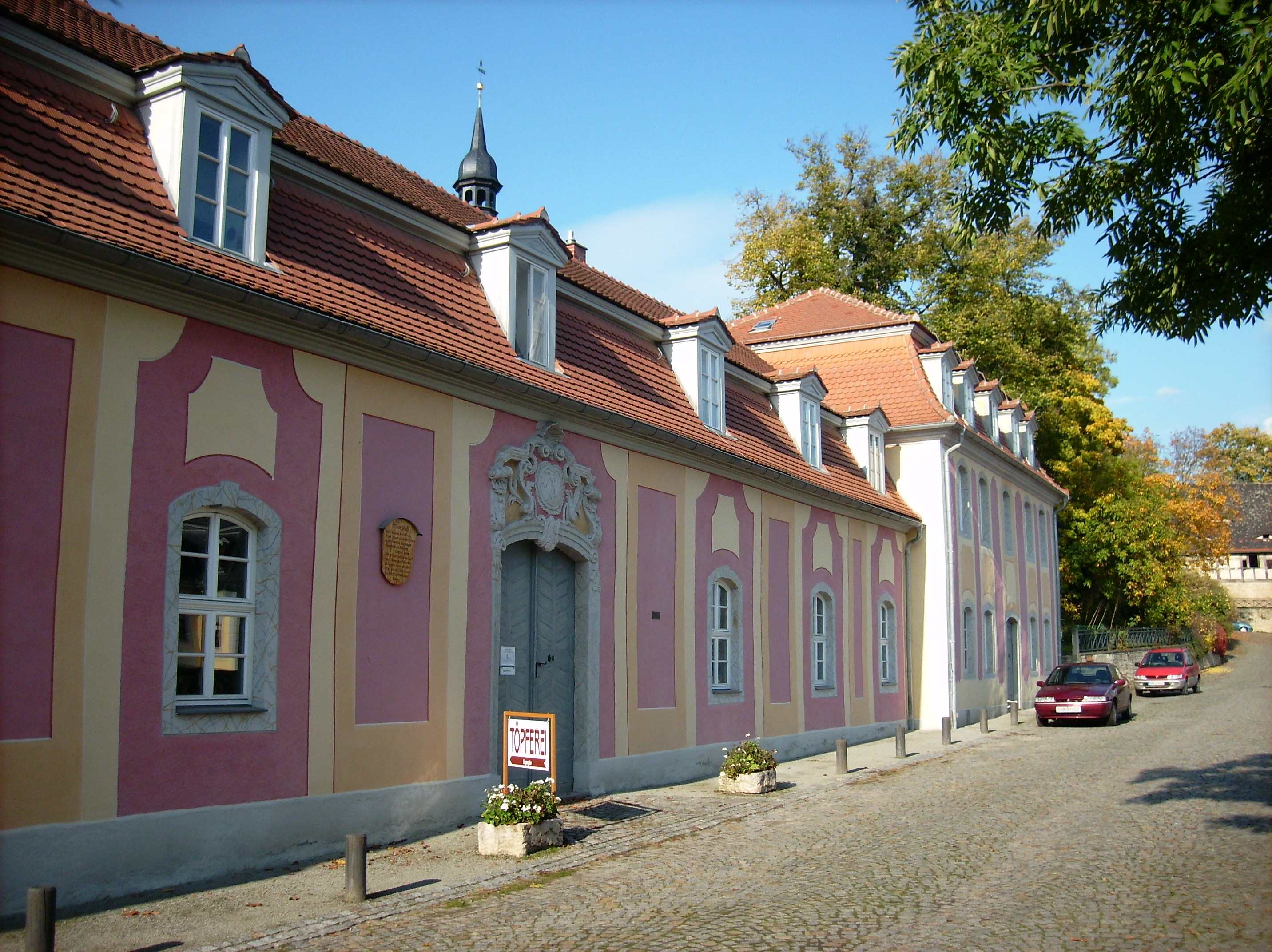 Ancient stables of the Dornburg Castles (Dornburg-Camburg, district of Saale-Holzland-Kreis, Thuringia)